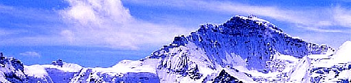 Jungfrau with Jungfraujoch - Grindelwald, A mountain in the alps in Switzerland, (81 KB - 590x400)